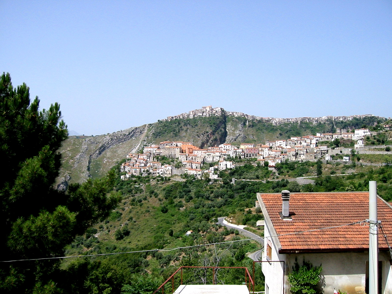 Calabria in Italy: Maierà and Grisolia in the background